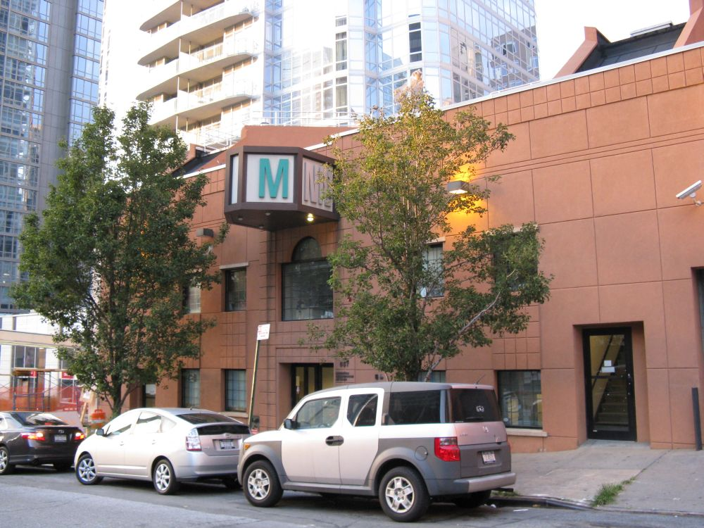 Manhattan Neighborhood Network. The studio is located at 537 West 59th Street, Manhattan.